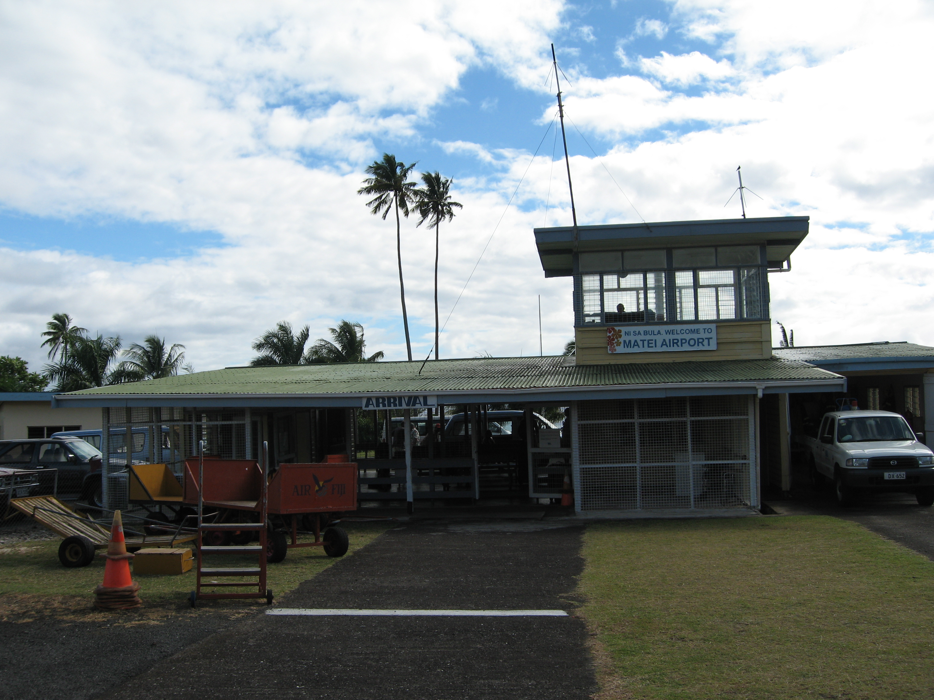 The airport on Taveuni Island is located in Matei on the northern part of the island. The airport is quite small but receives a number of flights from SunAir and Air Fiji from Nadi and Suva. The airport is quite close to a number of resorts and small accommodation providers. The airport also has recently been upgraded from a gravel runway to a paved runway.